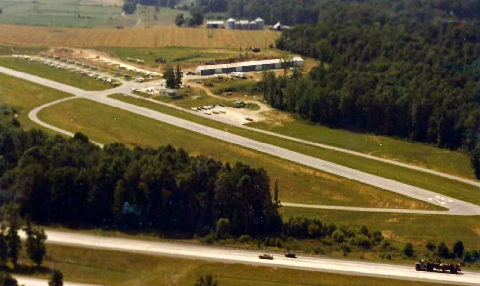 It contains a historic picture of the now non-existent Baltimore airpark